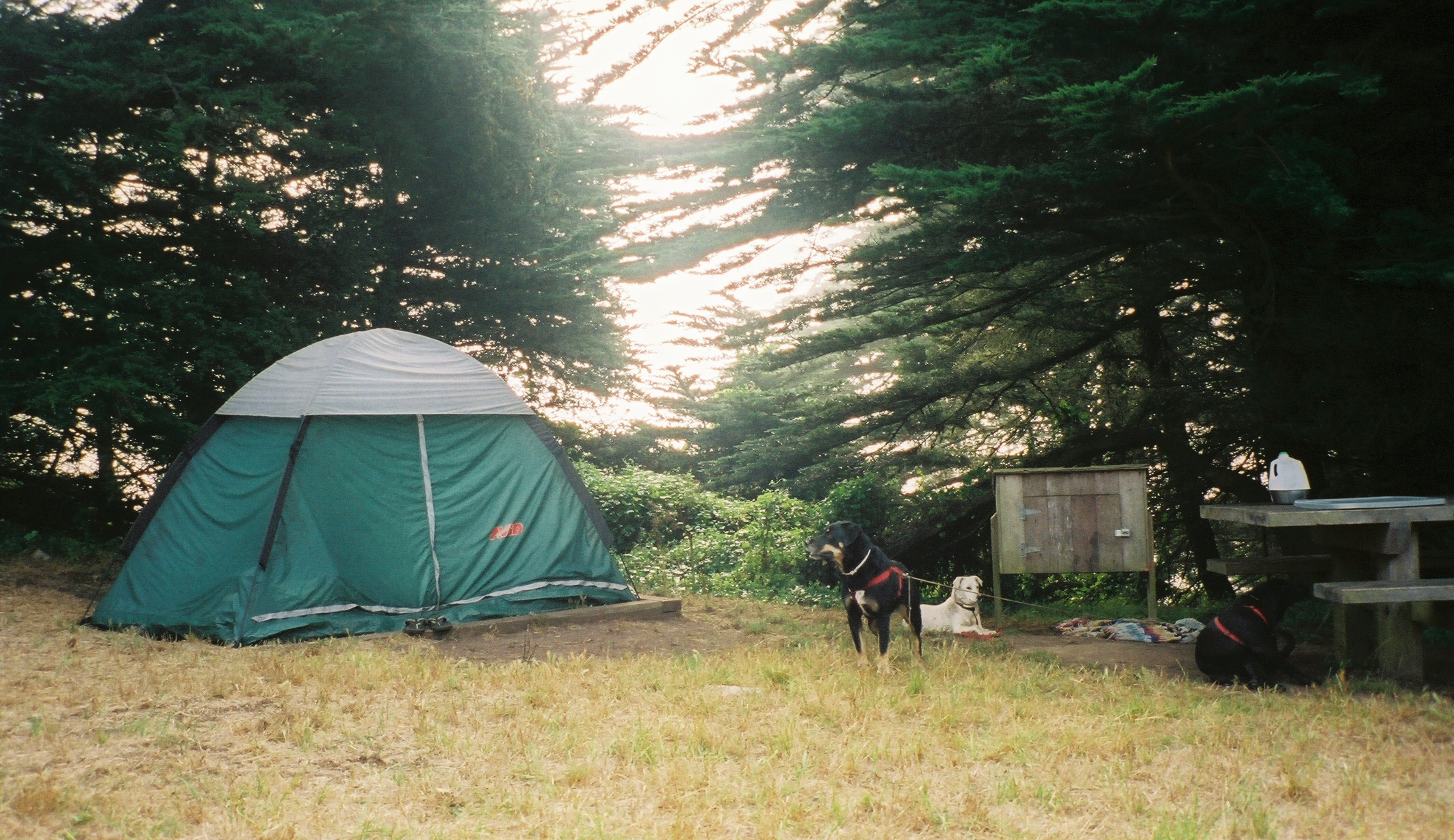 Bicentennial Campground Golden Gate National Recreation Area surrounding the San Francisco Bay area, California. Free, Pets allowed.